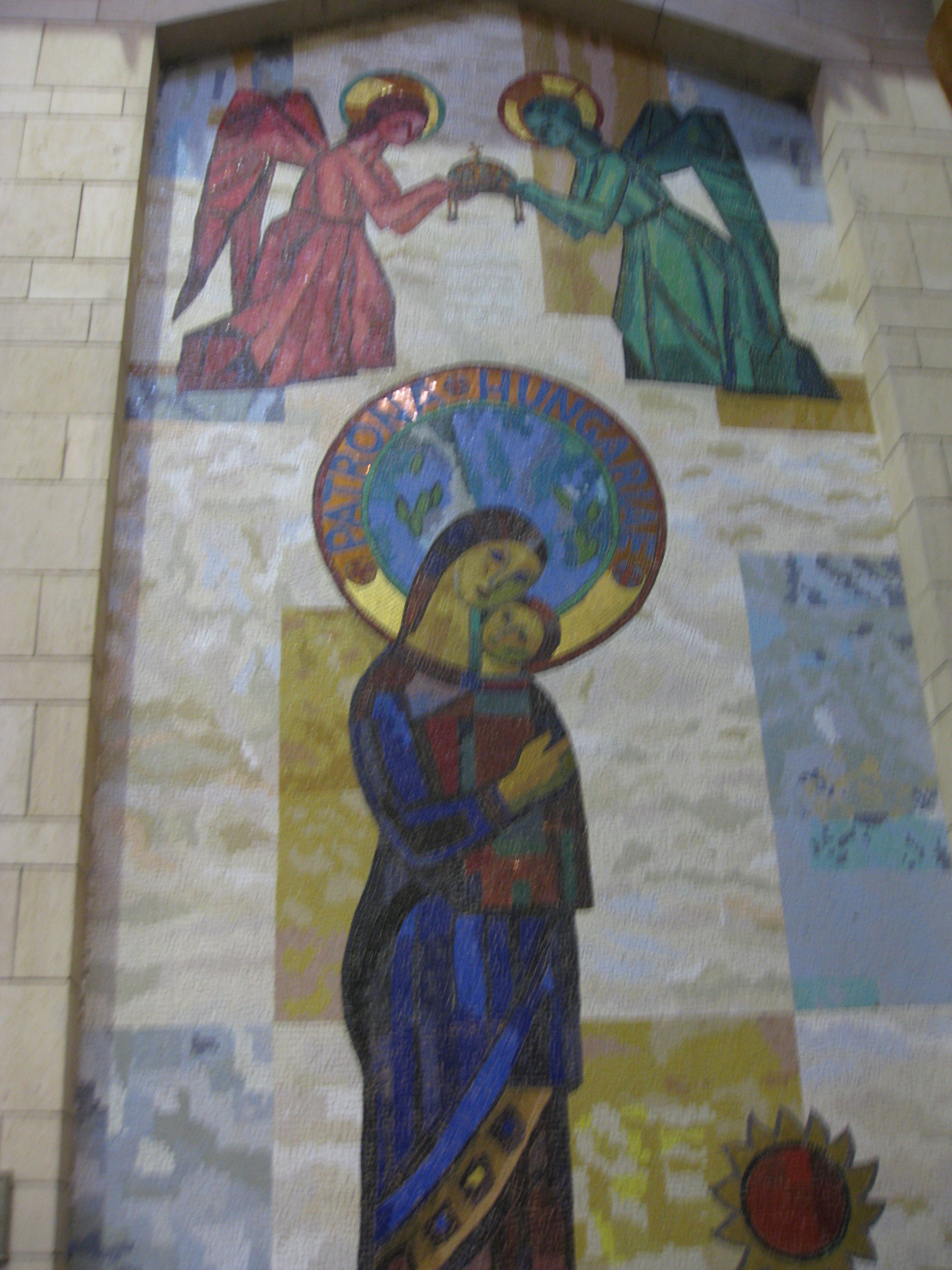 The Church of the Annunciation כנסיית הבשורה בנצרת Mural donated by Hungary